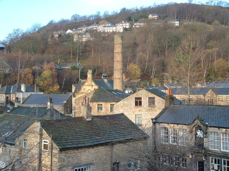 This is entirely my own work and I release it into the public domain.